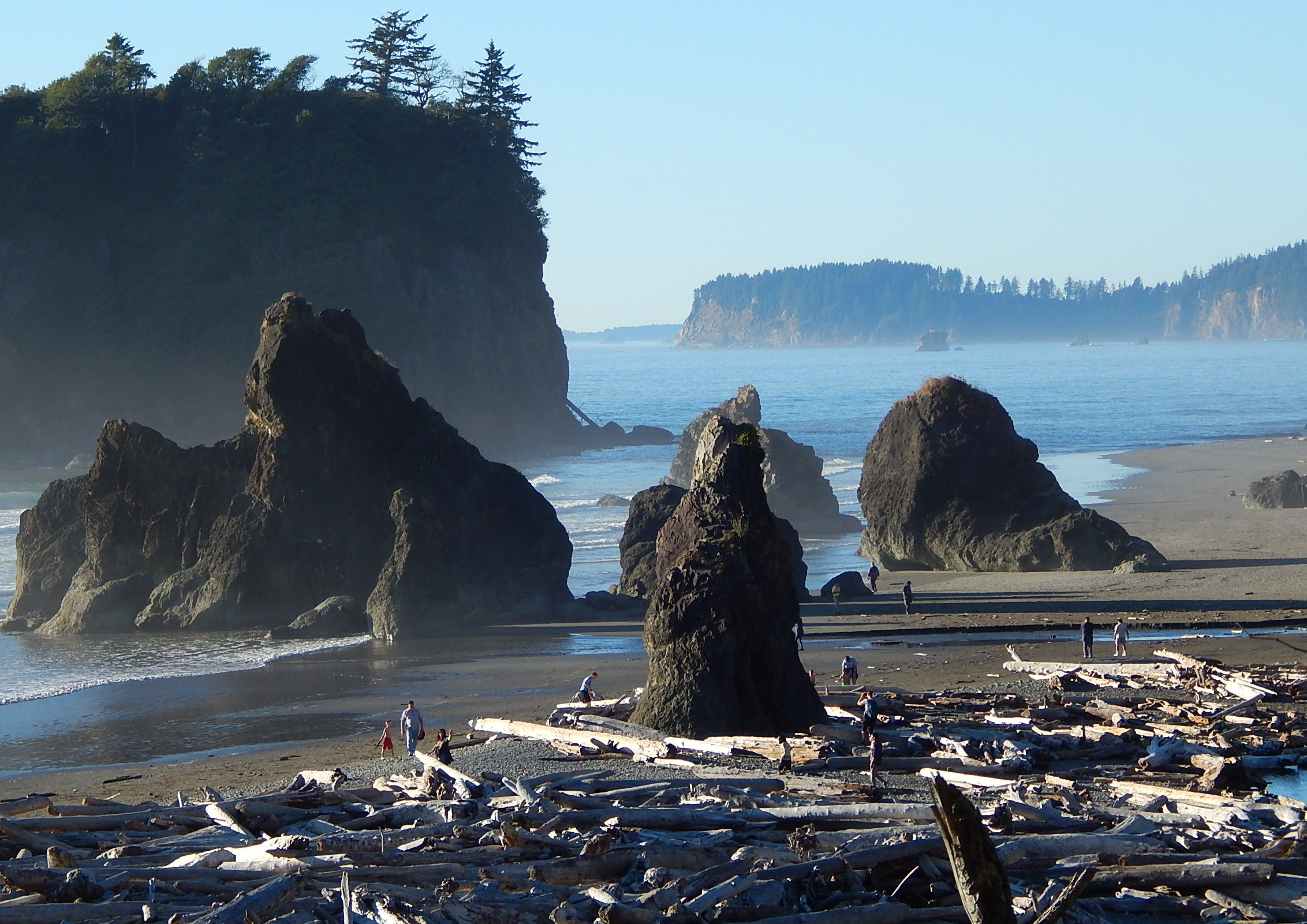 Sea stacks at Ruby Beach, Washington coast. Olympic National Park